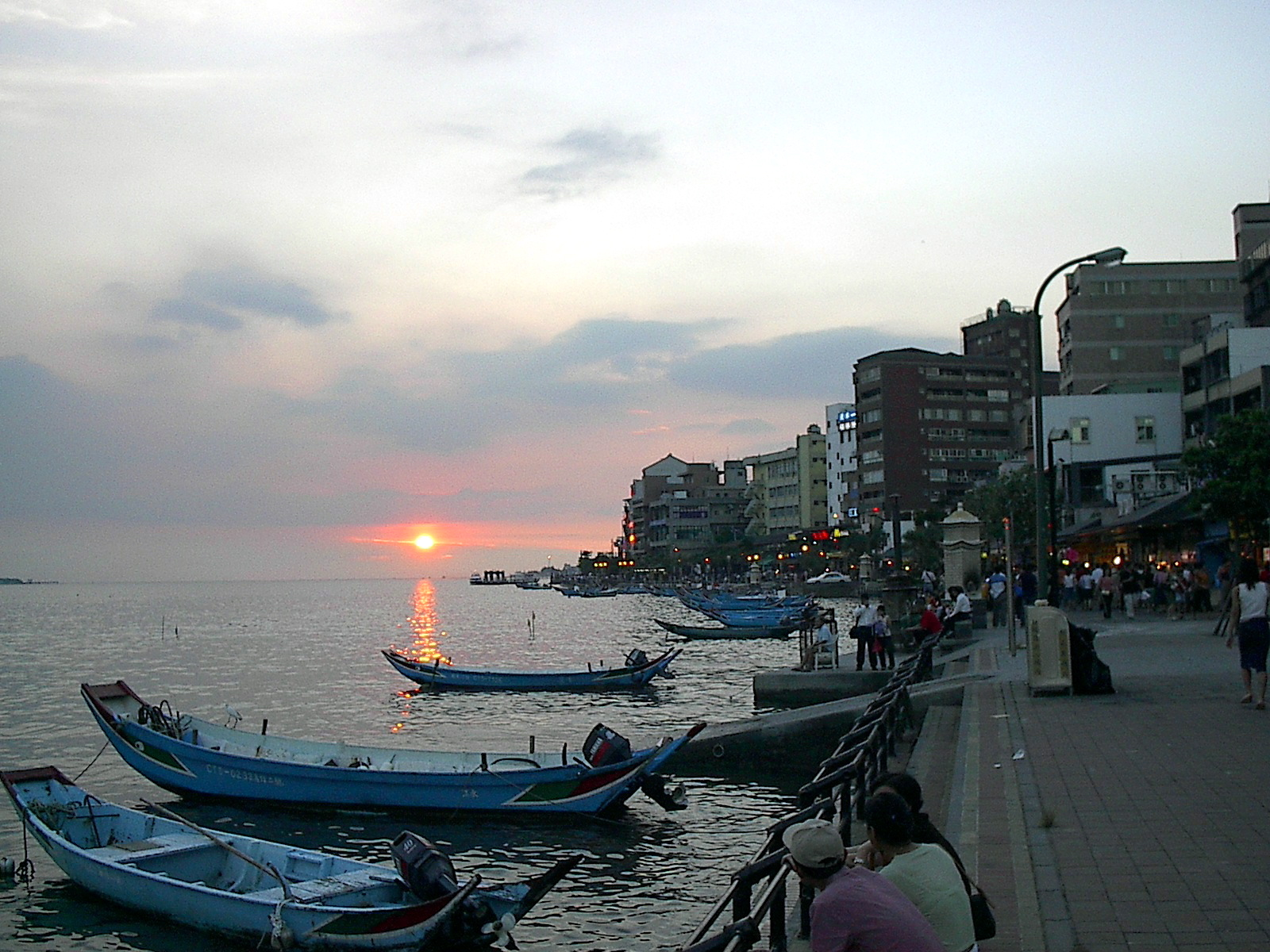 Tamsui (Fresh Water) is located north of Taipei City, within Taipei County. Waterfront at sunset. Danshui Township, Taiwan.